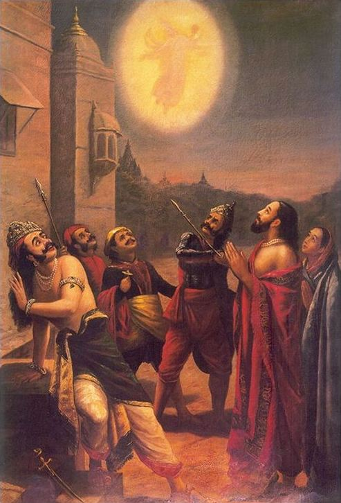 Kamsa trying to kill the child, shown Maya by Goddess Durga.